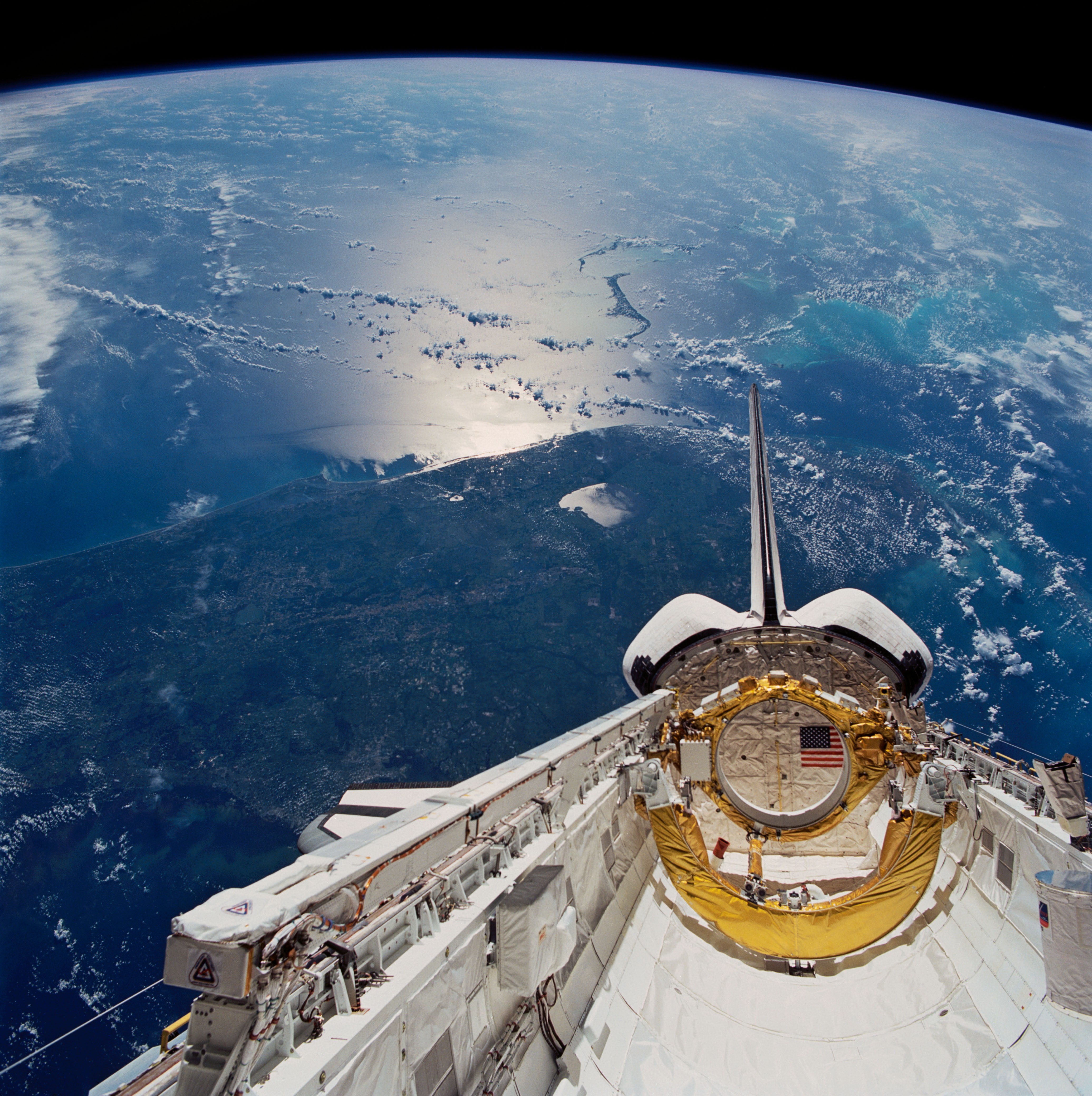 The payload bay of Atlantis viewed as the orbiter passes over Florida, STS-43.